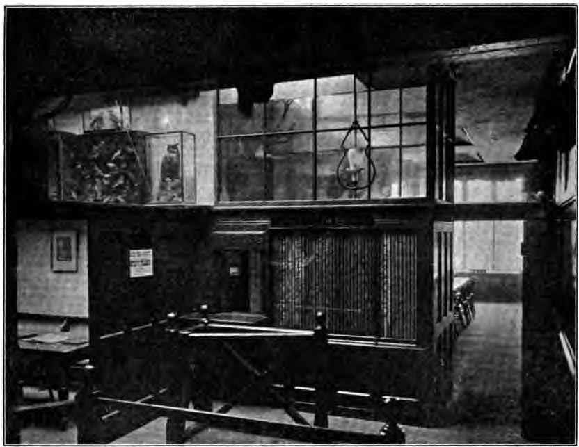 Runcorn Free Public Library Entrance Hall in 1901. The entrance was in Egerton Street. From 1882 the library was housed in Waterloo House, converted from a private residence by architect James Wilding, surveyor and water engineer to the Runcorn Urban District Council. In 1906 the library was altered and extended by Wilding with a grant from Andrew Carnegie. Photograph from Views and Memoranda of Public Libraries by Alfred Cotgreave.